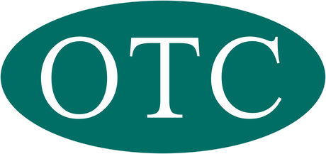 Chinese standard sign for "over-the-counter drug - type B"